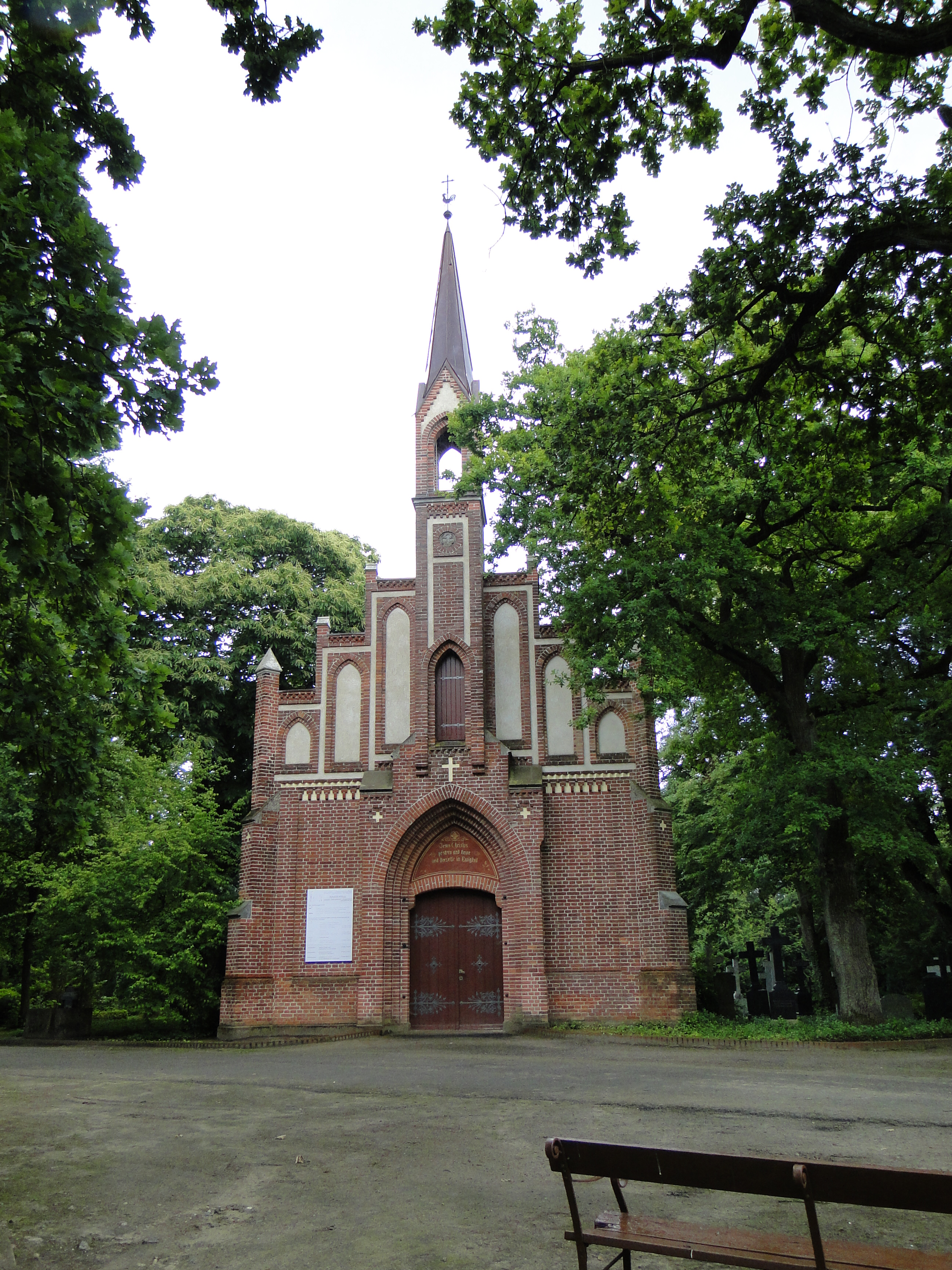 Old cemetery in Schwerin, Mecklenburg-Vorpommern, Germany